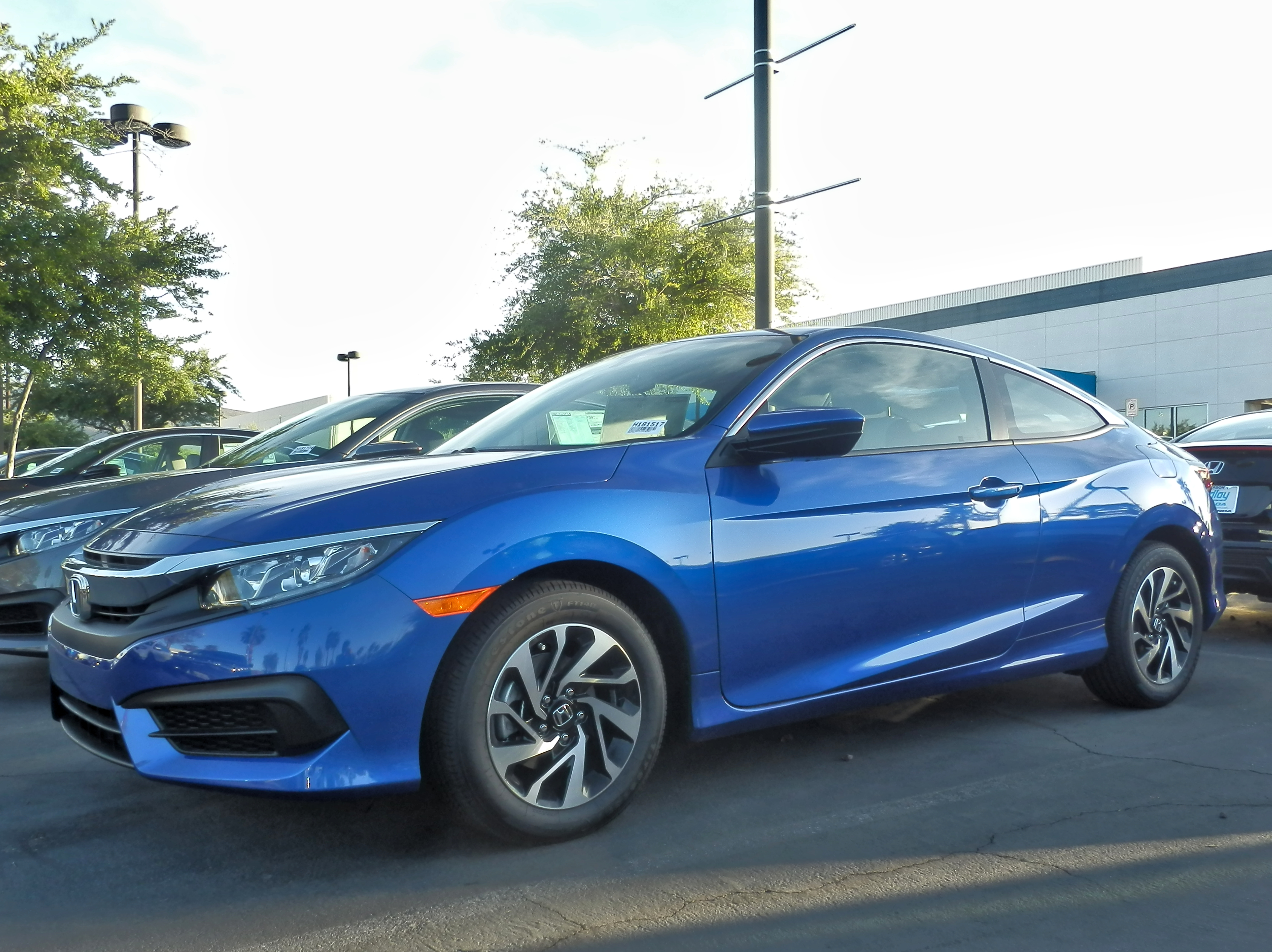 Honda Civic Coupe in Las Vegas